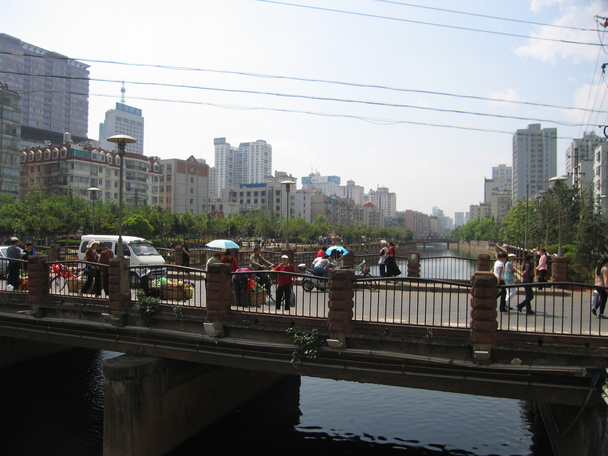 Bridge across the Panlong River from Jiangbin Lu in Kunming, Yunnan Province.